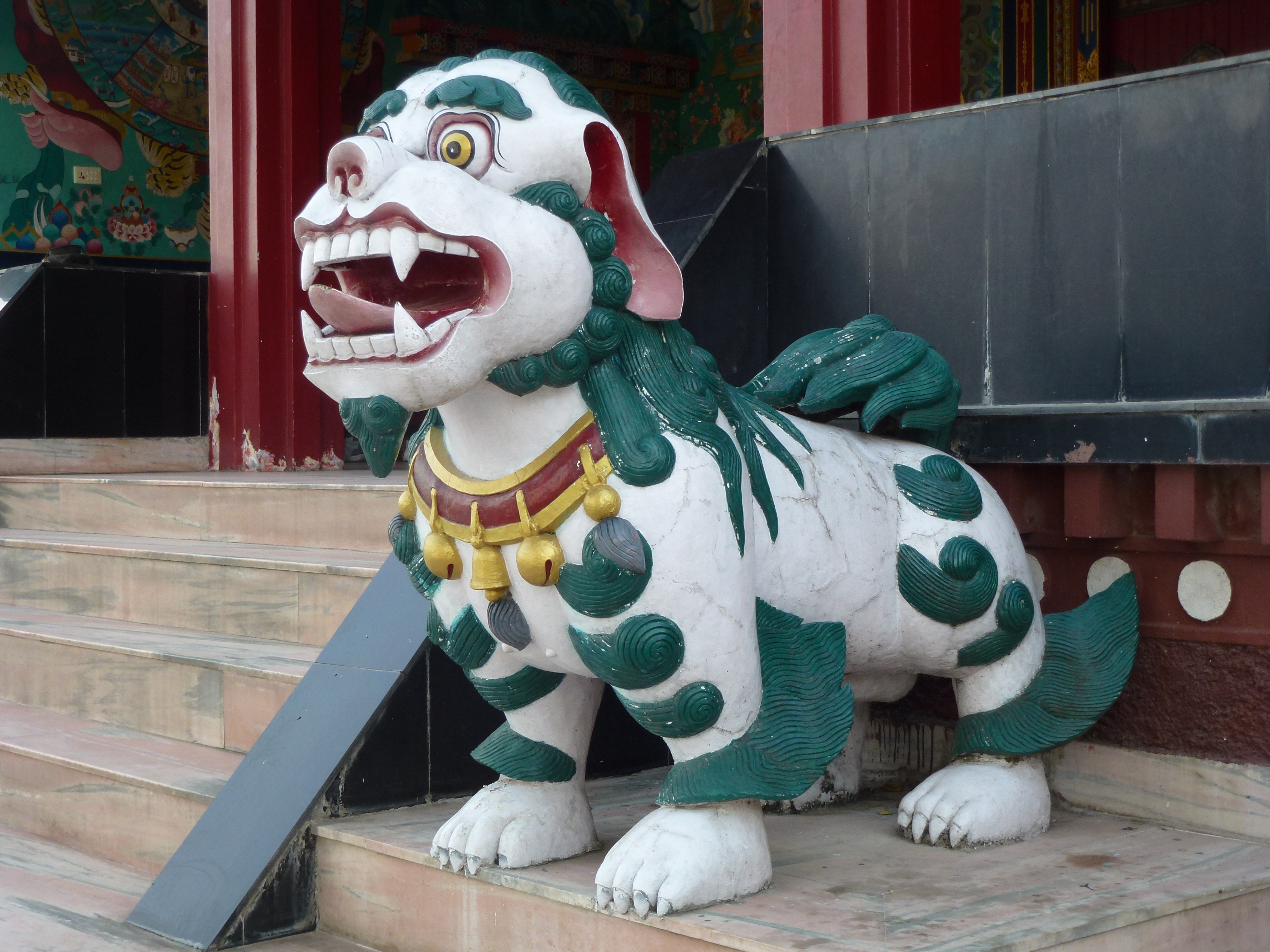 Snow Lion at the entrance to Main Gompa. Kopan Monastery.